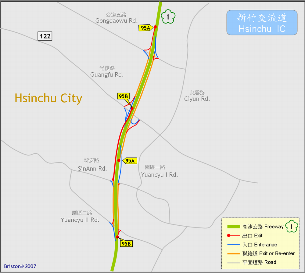 Hsinchu Interchange of National Highway No.1, Taiwan